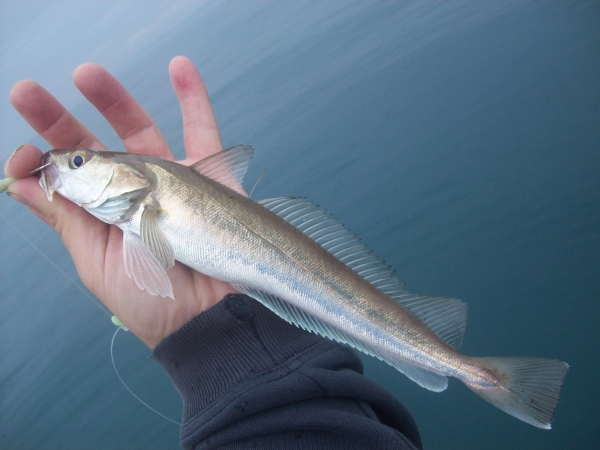 A 30 cm long European hake caught off the coast of Spain